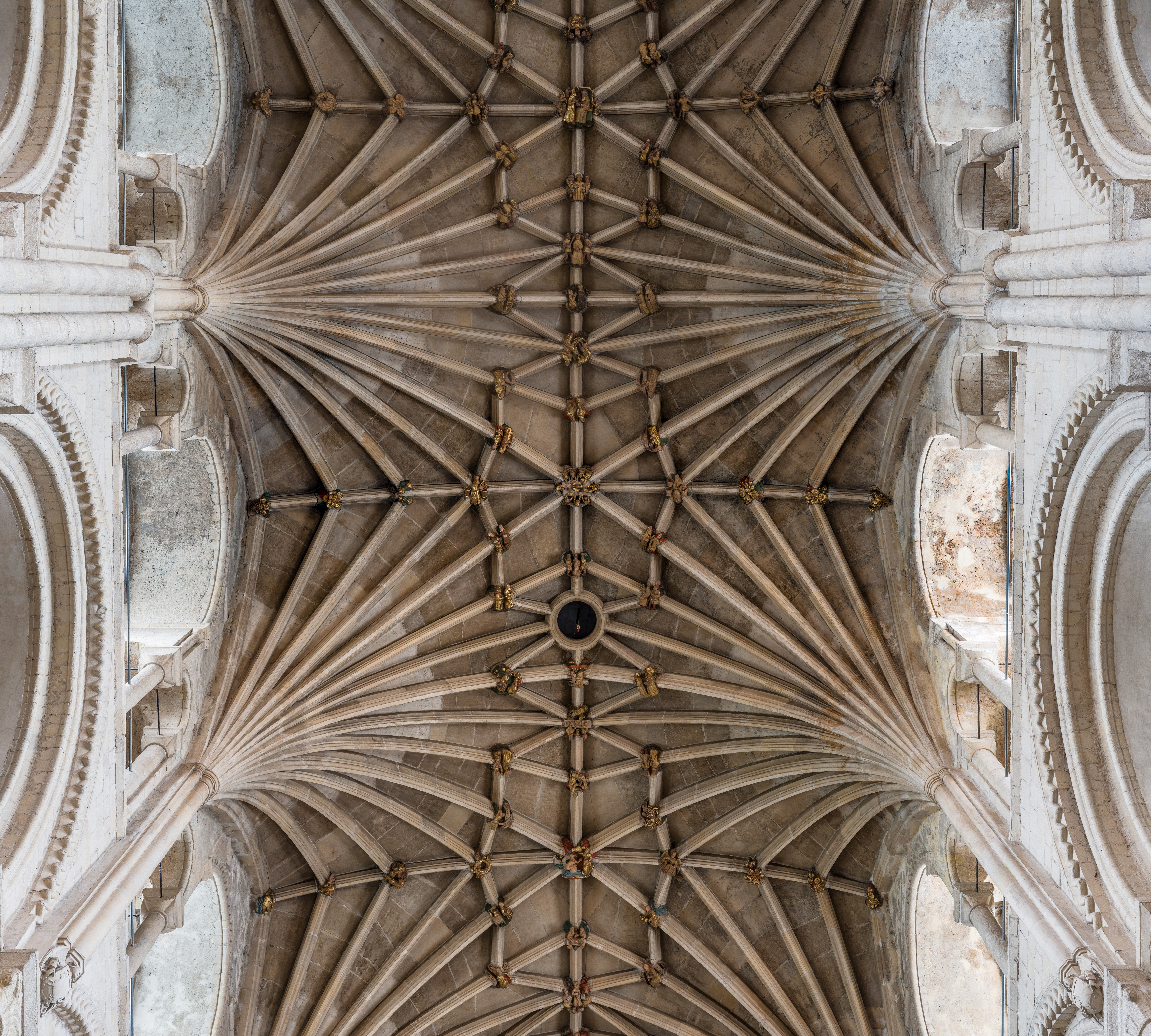 The ceiling of Norwich Cathedral in Norfolk, England.